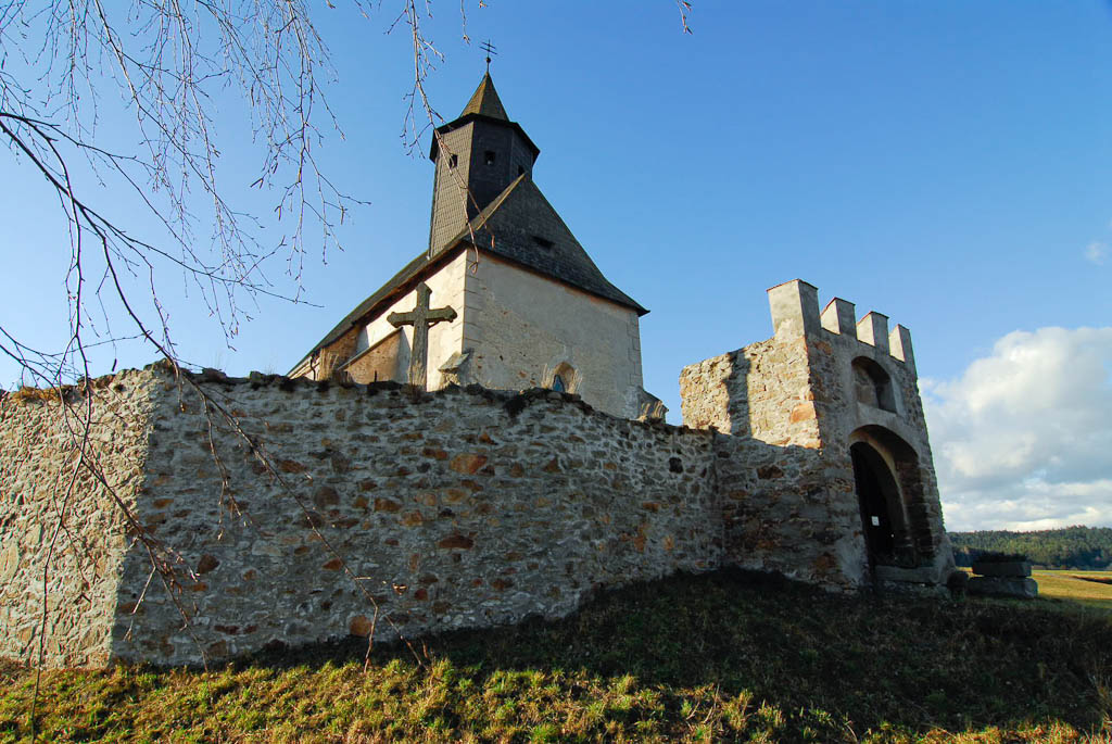 Fortified church of Kleinzwettl